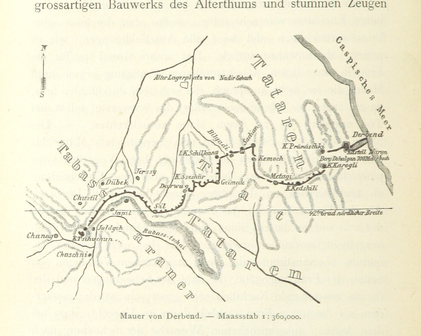 View this map on the BL Georeferencer service. Image taken from: Title: "Der Kaukasus und seine Völker ... Mit Textabbildungen, etc" Author: ERCKERT, R. von. Shelfmark: "British Library HMNTS 10006.e.9." Page: 238 Place of Publishing: Leipzig Date of Publishing: 1887 Issuance: monographic Identifier: 001156328 Explore: Find this item in the British Library catalogue, 'Explore'. Download the PDF for this book (volume: 0) Image found on book scan 238 (NB not necessarily a page number) Download the OCR-derived text for this volume: (plain text) or (json) Click here to see all the illustrations in this book and click here to browse other illustrations published in books in the same year. Order a higher quality version from here.